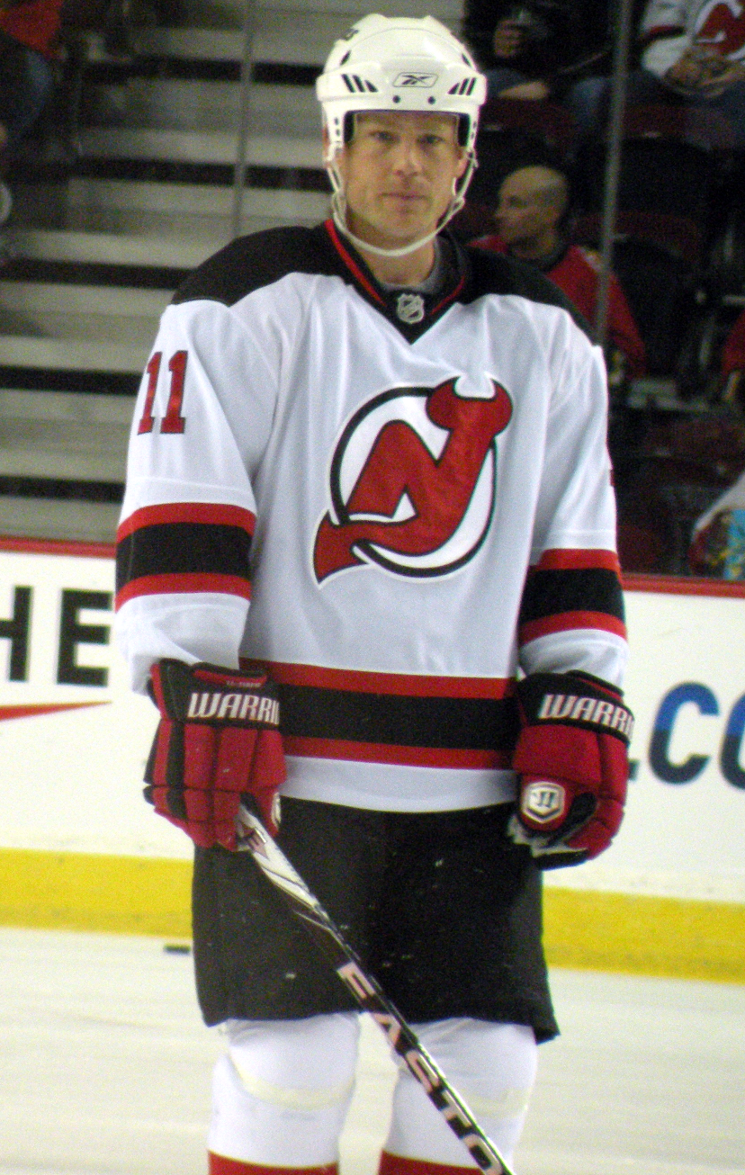 New Jersey Devils forward Dean McAmmond prior to a National Hockey League game against the Calgary Flames.